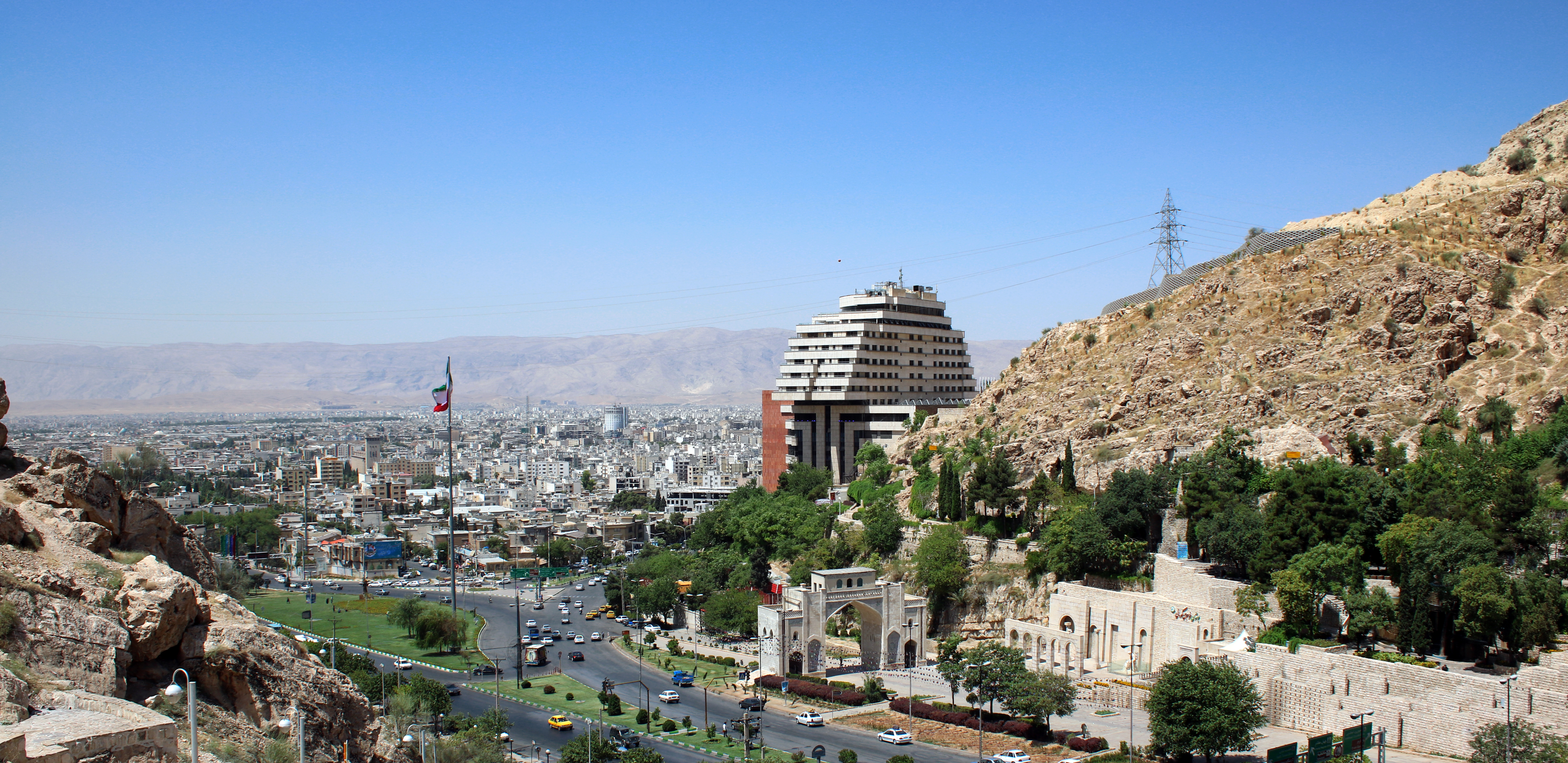 A landscape of Shiraz City